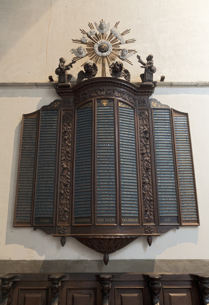 Sint-Walburgakerk; Oudenaarde; Oost-Vlaanderen, Belgium; ref: PM_008312_B_Oudenaarde; noordtransept, ; Ledenbord van, de confrerie van O.L.Vrouw van Halle, 18de eeuw; Photographer: Paul M.R. Maeyaert; © Paul M.R. Maeyaert; ; Cultural heritage; Europe/Belgium/Oudenaarde